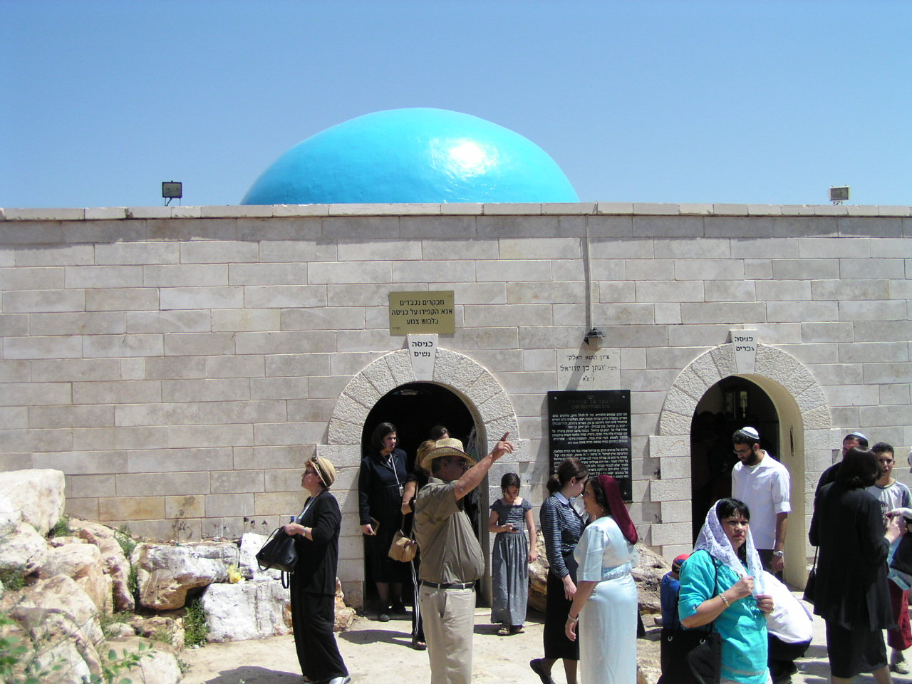 The Grave of Jonathan ben Uzziel - Amukha